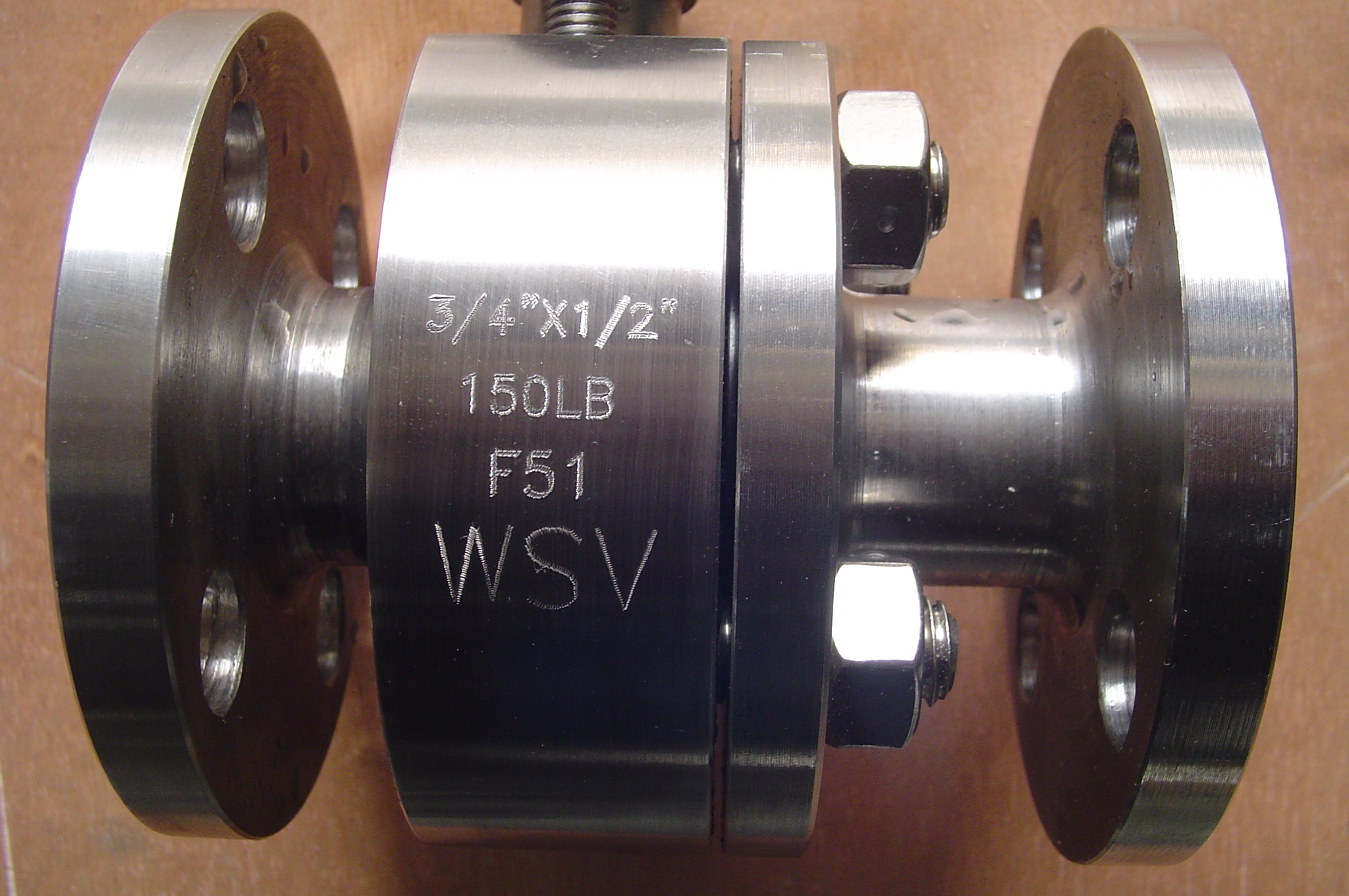 Duplex valve. Reduced bore ball valve, inlet diameter 3/4", outlet diameter 1/2", flanged 150#, made of forged duplex A182 F51.